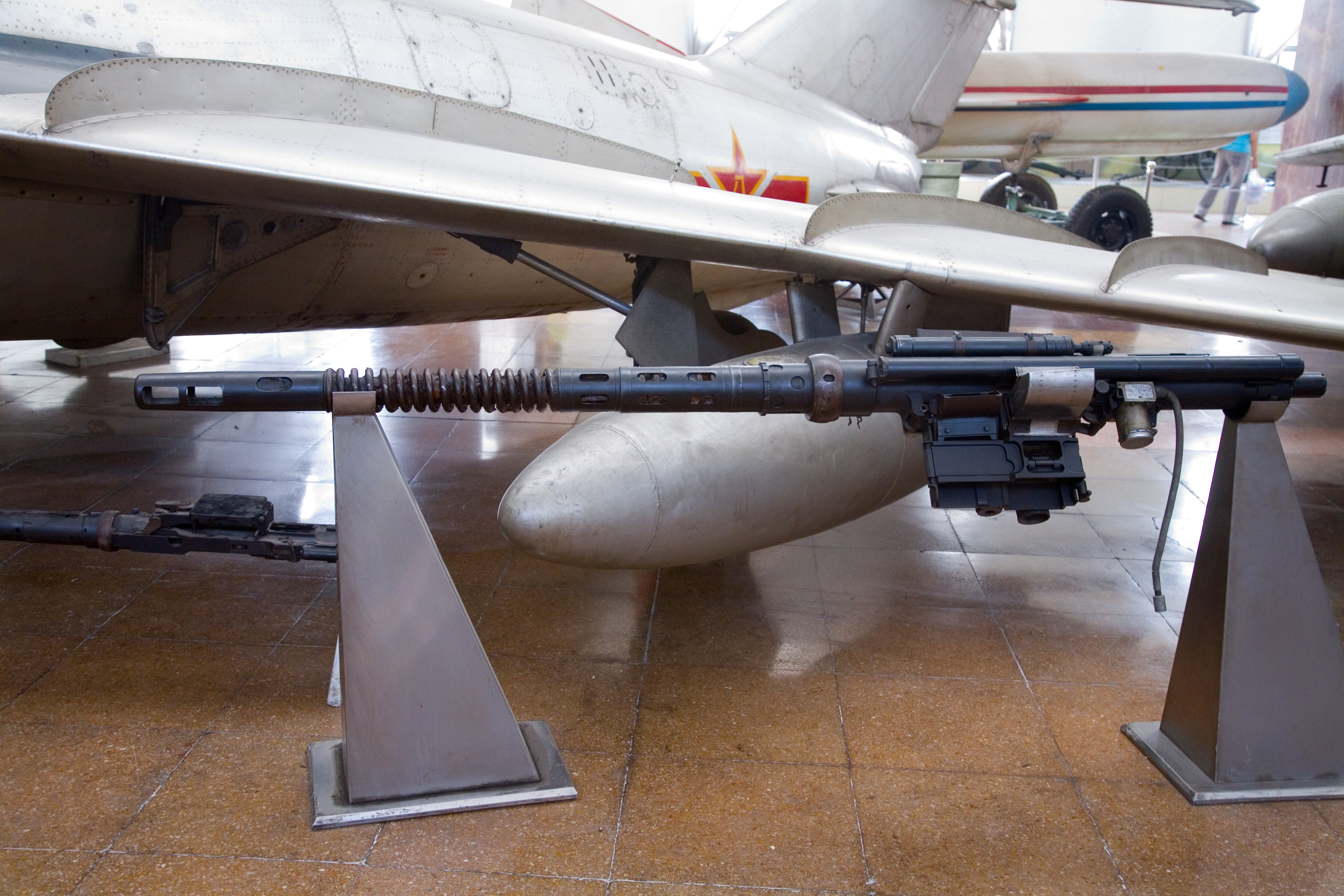 A Chinese NL-37 37 mm aircraft cannon at the Beijing Military Museum